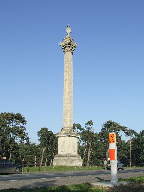 Elveden war memorial Elveden war memorial next to the busy A.11 a major land mark for holiday makers to let them know they are in Suffolk. Commissioned by the Earl of Iveagh to commemorate the 48 men from Elveden, Icklingham and Eriswell who died in the first world war. It is situated at the point were the three parishes meet. It stands 113 feet high with a staircase inside with 148 steps and is the tallest war memorial in Suffolk and one of the tallest such memorials in Great Britain.